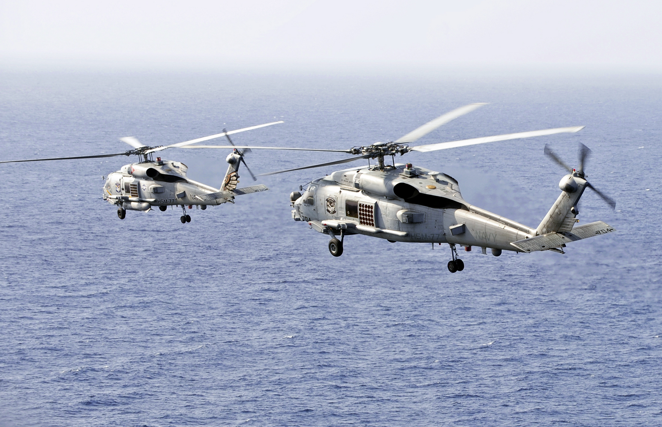 SOUTH CHINA SEA (Jan. 5, 2012) Cmdr. Brent Gaut relieves Cmdr. Kenneth Strong as commanding officer of Helicopter Maritime Strike Squadron (HSM) 77 during an airborne change of command in the sky near the Nimitz-class aircraft carrier USS Abraham Lincoln (CVN 72). Abraham Lincoln is in the U.S. 7th Fleet area of responsibility as part of a deployment to the western Pacific and Indian Oceans en route to support coalition efforts in the U.S. 5th Fleet area of responsibility. (U.S. Navy photo by Mass Communication Specialist 3rd Class Adam Randolph/Released)